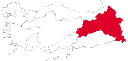 Map of Turkey with highlighted Eastern Anatolia Region (Doğu Anadolu Bölgesi)